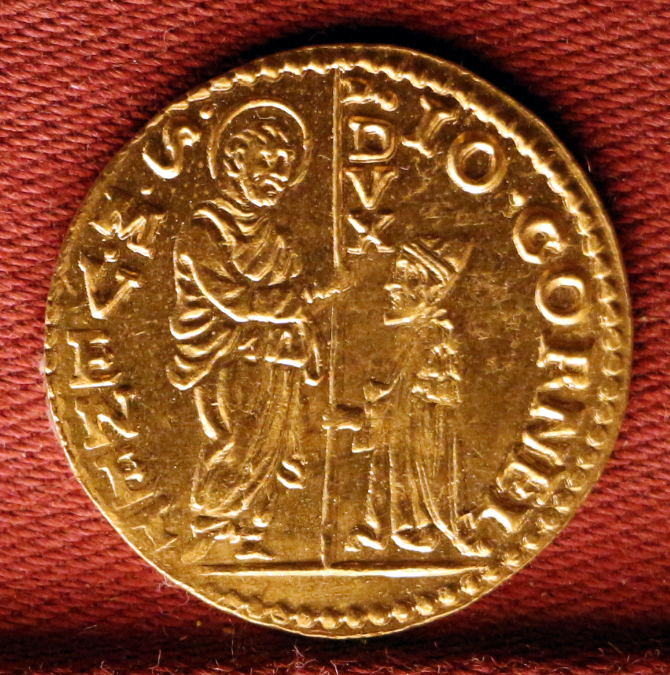 Coins of Venice in the Museo Correr (Venice)